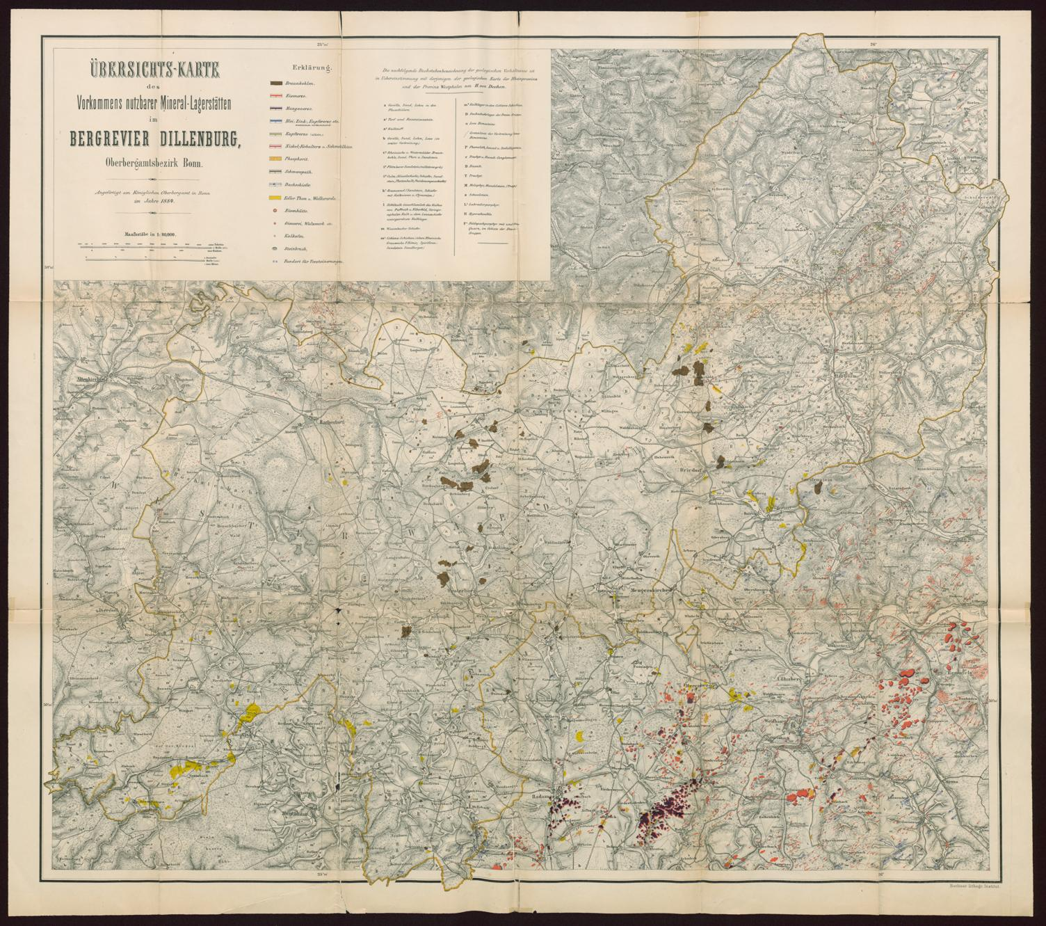 Map of the' mining district Dillenburg' of 1884, Prussia